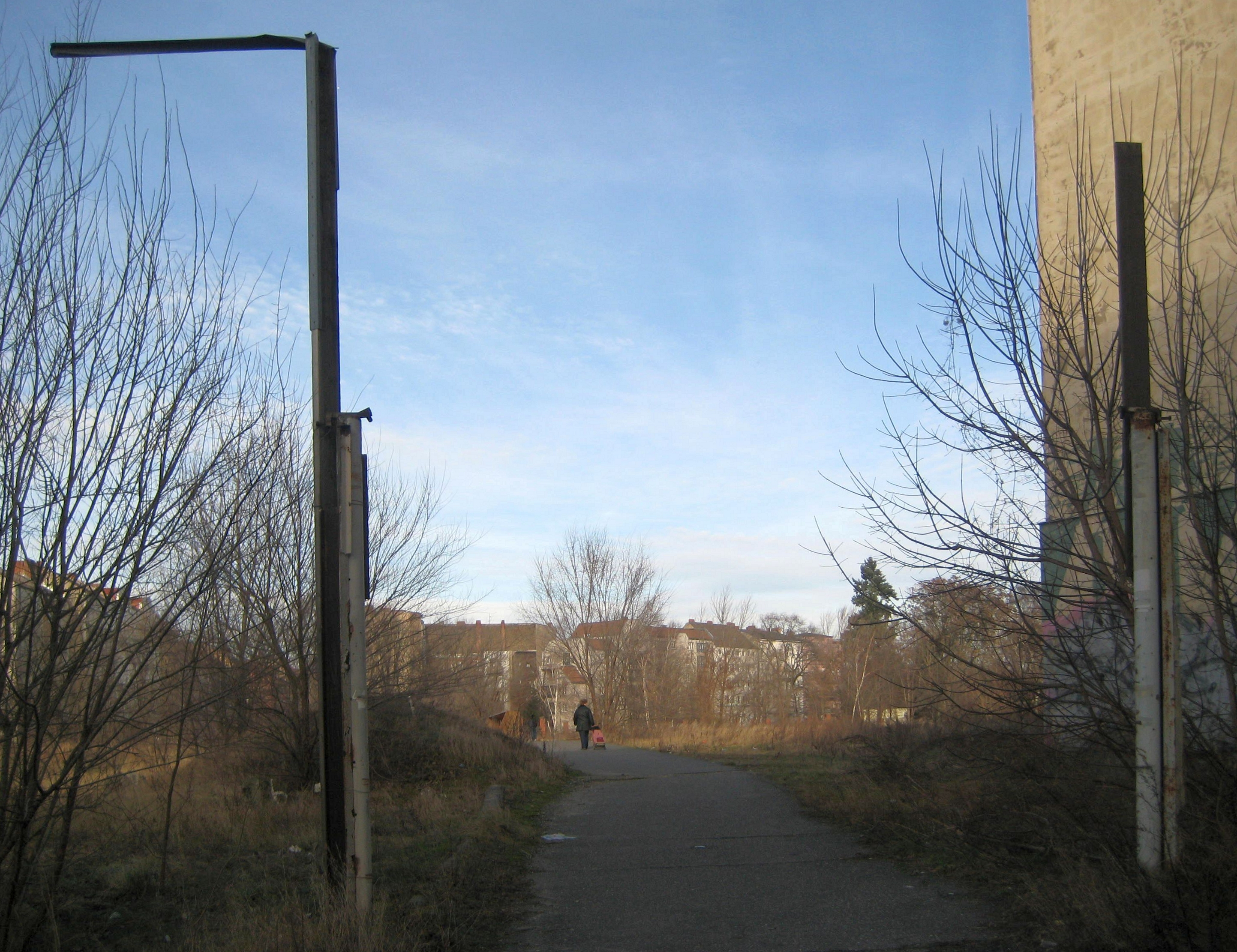 Remains of the Berlin Wall border fortifications near the former border crossing Chausseestraße; gate to the former border strip (“Grenzstreifen”), also called death strip (“Todesstreifen”), with the patrol road of the border troups (“Kolonnenweg”).